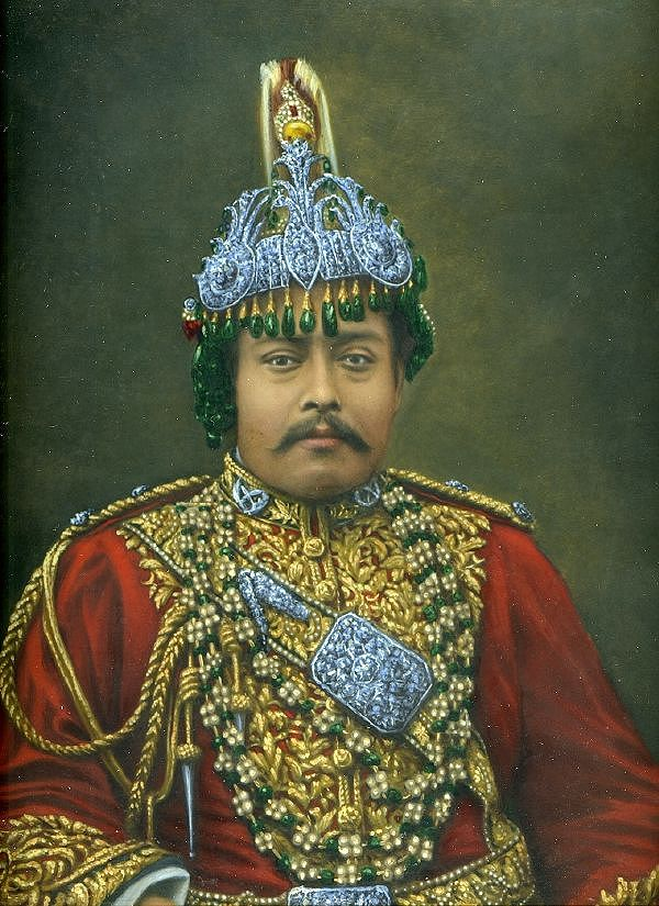 Prime Minister Dev Shamsher JBR and Maharaja of Kaski and Lamjung abdicated on 1901